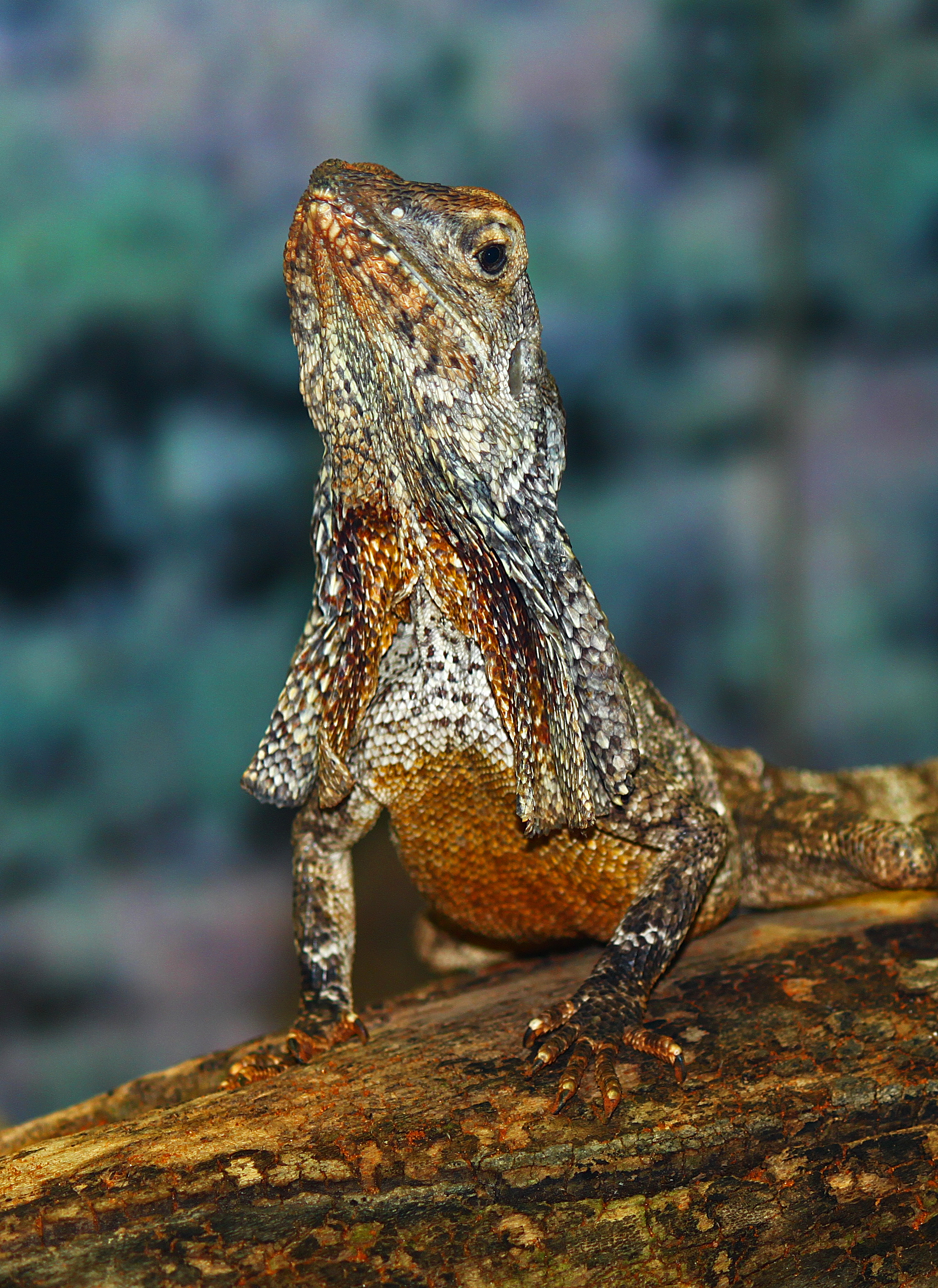 Chlamydosaurus kingii, Agamidae, Frill-necked Lizard; Staatliches Museum für Naturkunde Karlsruhe, Germany.